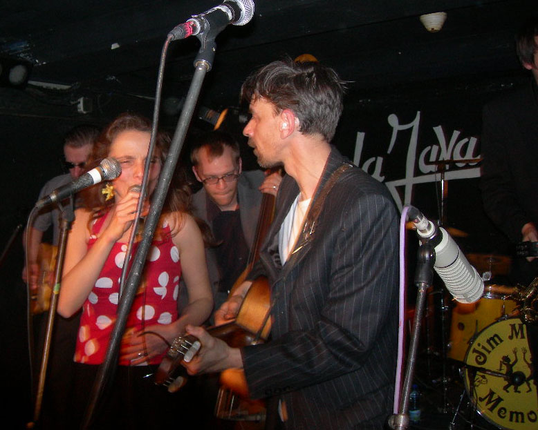 Jim Murple Memorial live in Paris, La Java